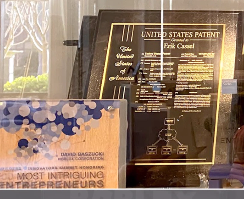 A "Most Intriguing Entrepreneurs" award granted to Roblox CEO and co-founder David Baszucki alongside a United States patent under the name of Roblox co-founder Erik Cassel. Taken from the Roblox company headquarters building in San Mateo, California.